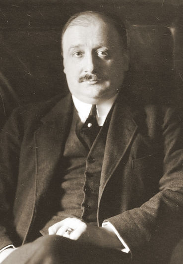 Adolf Bniński, Polish politician, supported conservative and pro-monarchy views. In the Polish presidential election, 1926, he was the presidential candidate of the National Populist Union (Związek Ludowo-Narodowy), but he lost to Ignacy Mościcki. Member of the Senate of Poland in the Second Polish Republic. In the aftermath of the German invasion of Poland he was the Government Delegate for Poland for the Polish territories annexed by Nazi Germany. He was arrested by Nazi-German Gestapo in July 1941, tortured and finally killed in 1942